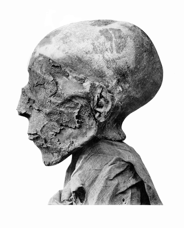 Head of mummy of pharaoh Seti II.